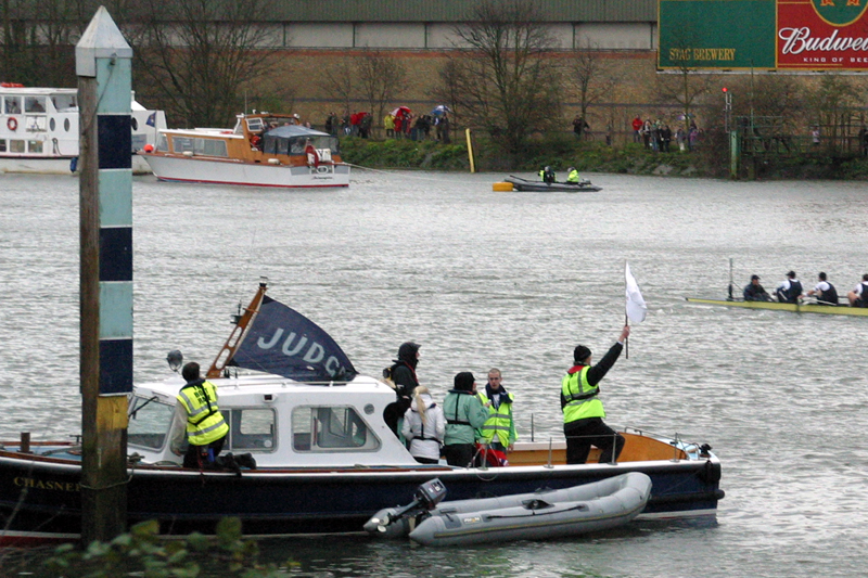 2008 Finish seen from Chiswick Bridge (for an alternative crop, see File:Boat Race Finish post.jpg).